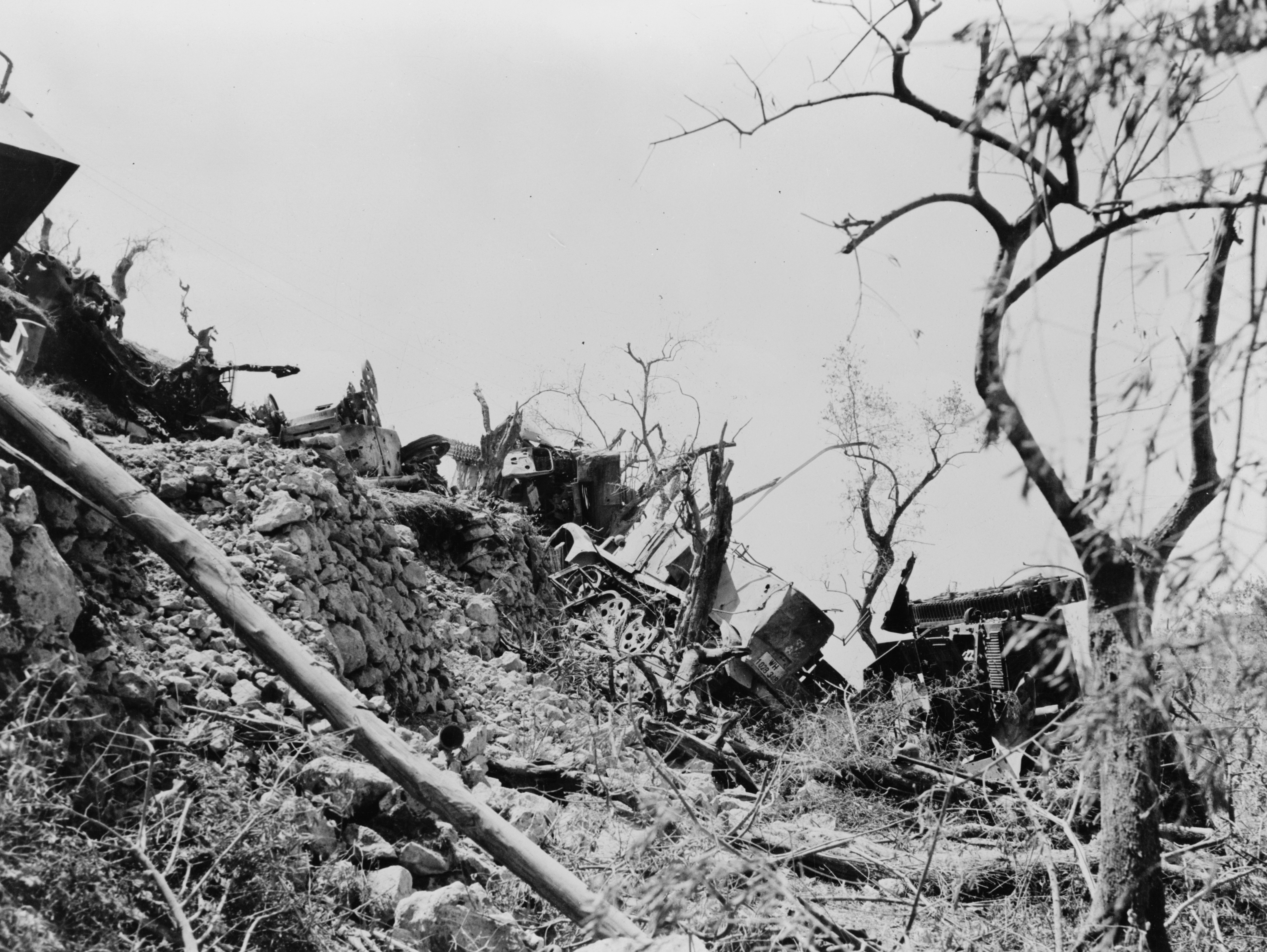 German vehicles destroyed by an air attack north of Cassino, Italy, in 1944. The halftrack artillery tractor carries the identification plate "WH 1028 348".